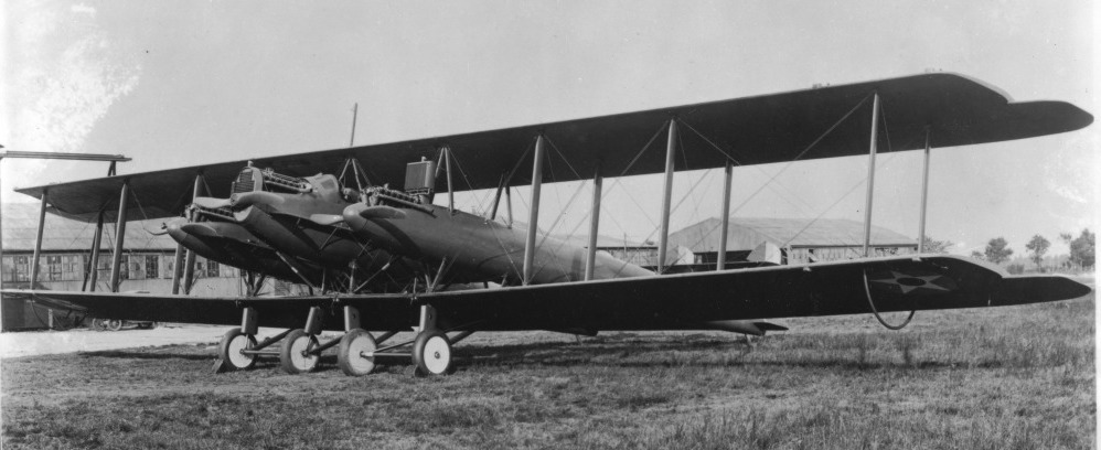 PictionID:44989353 - Title:LWF H-1 Owl 1922 - Catalog:16_006221 - Filename:16_006221.tif - - - - Image from the Ray Wagner Collection. Ray Wagner was Archivist at the San Diego Air and Space Museum for several years and is an author of several books on aviation --- ---Please Tag these images so that the information can be permanently stored with the digital file.---Repository: San Diego Air and Space Museum